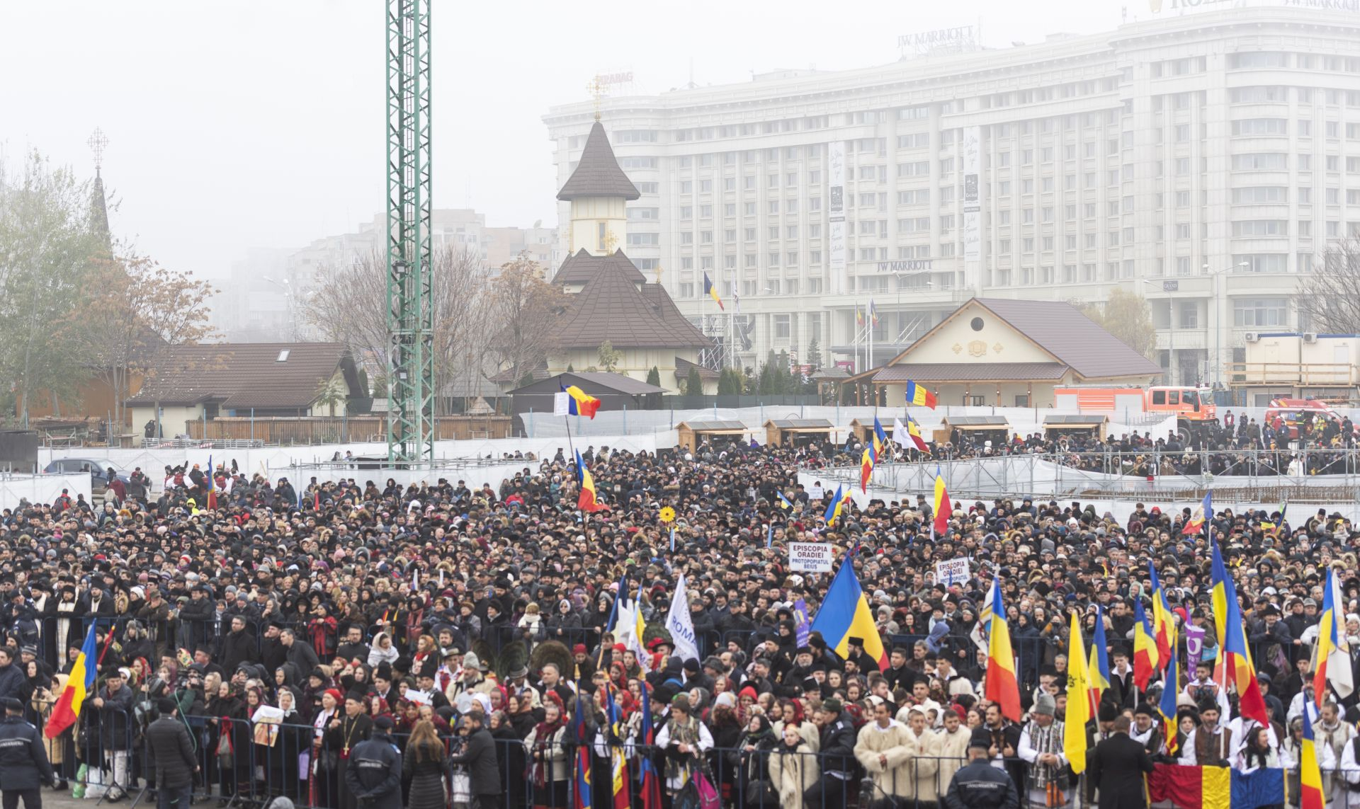 People's Salvation Cathedral - Days of consecration